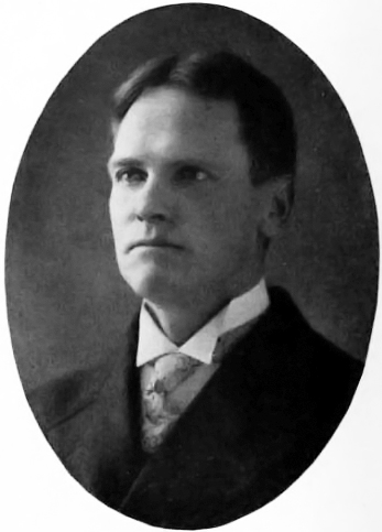 Edwin S. Hinckley in1911